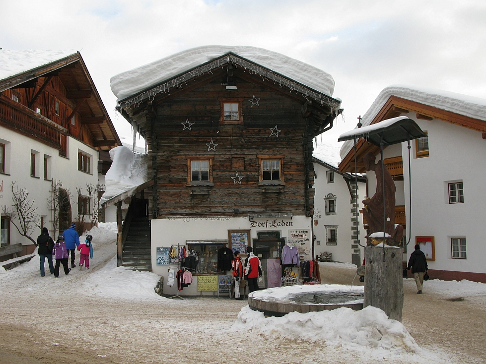 Serfaus village